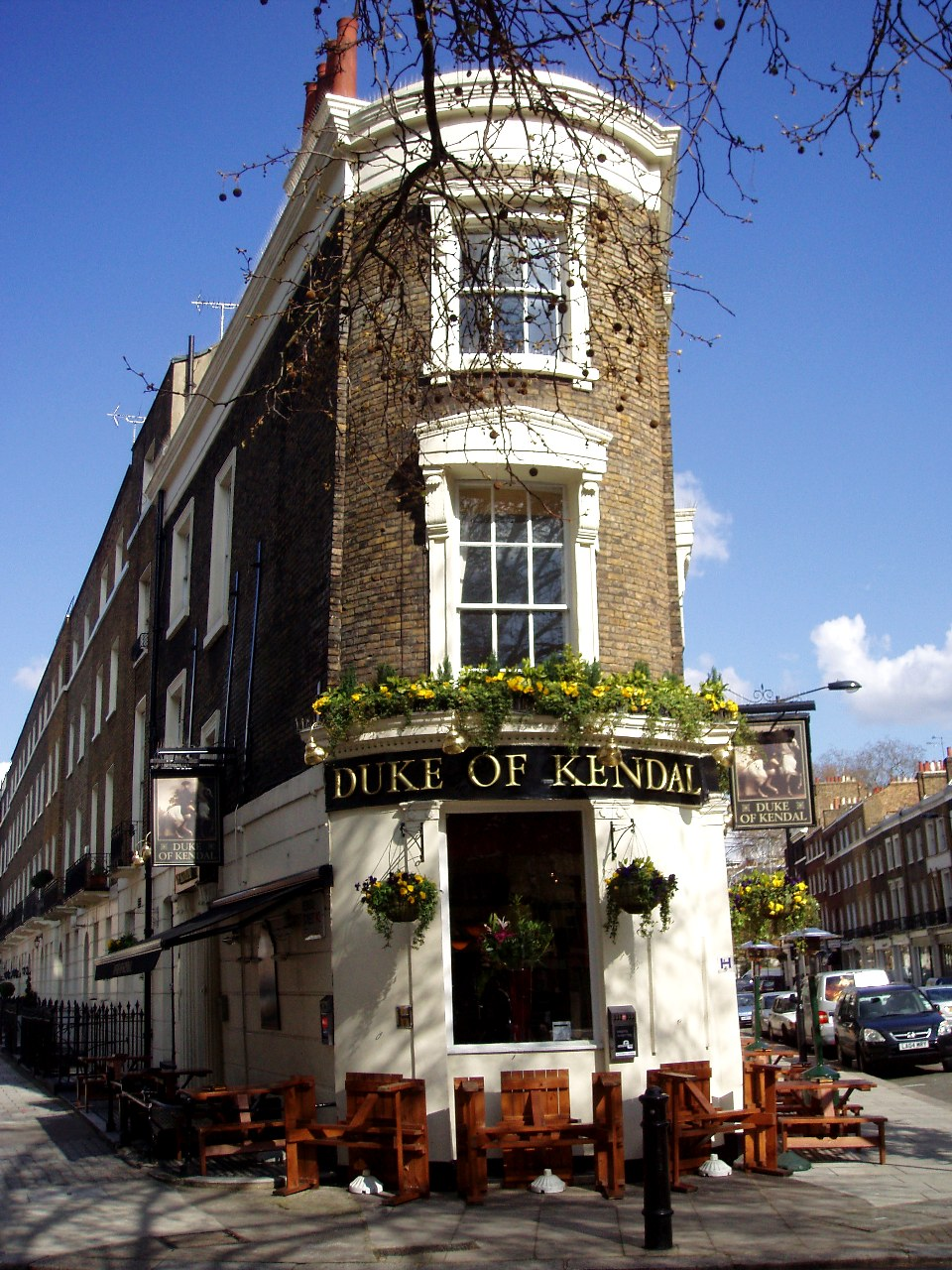 Nice-looking place in a striking location. Address: 38 Connaught Street. Owner: (website). Links: Fancyapint Beer in the Evening